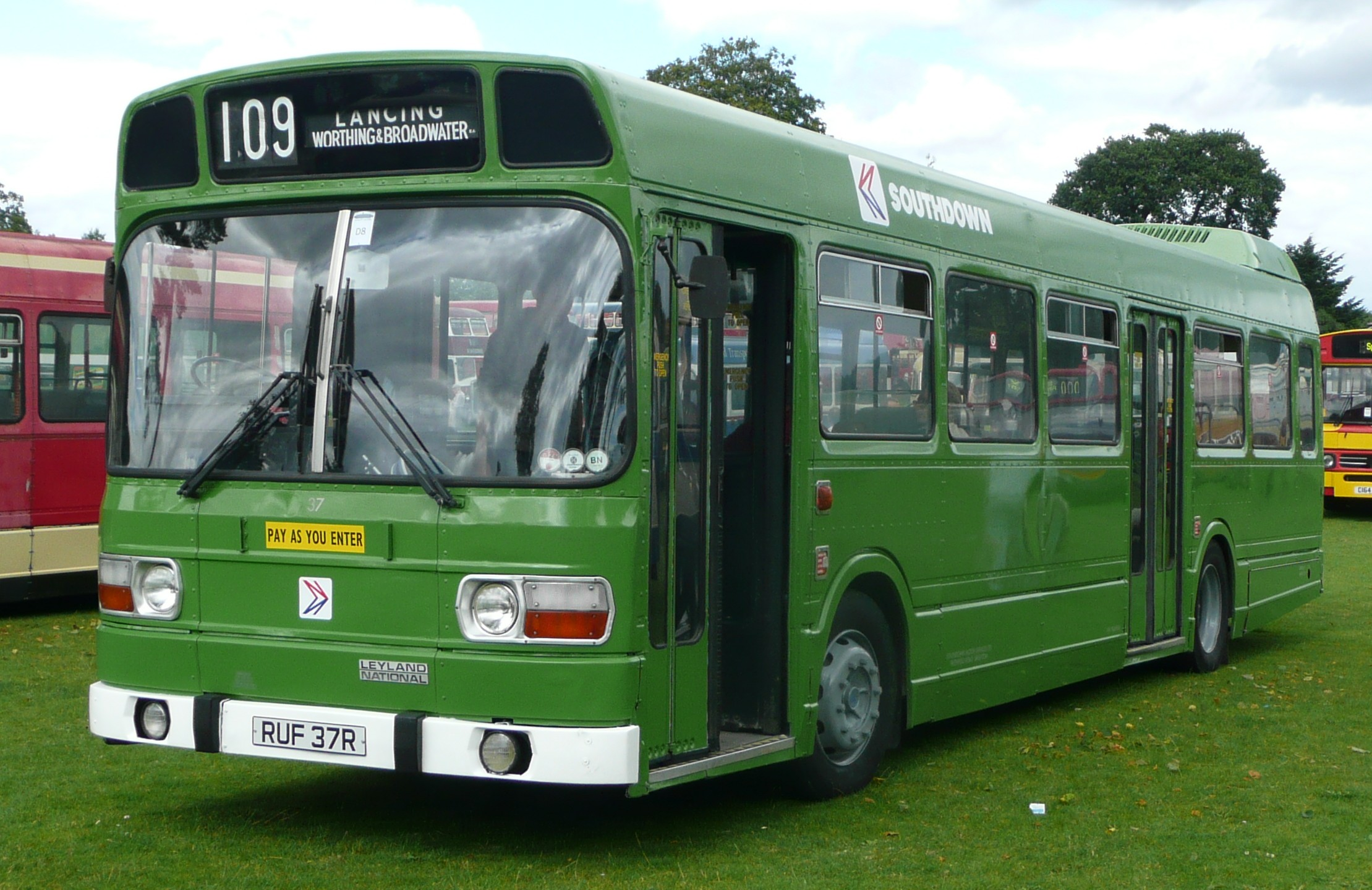 A Leyland National at the 2008 Alton bus rally. Now preserved, it used to be run by Southdown Motor Services.